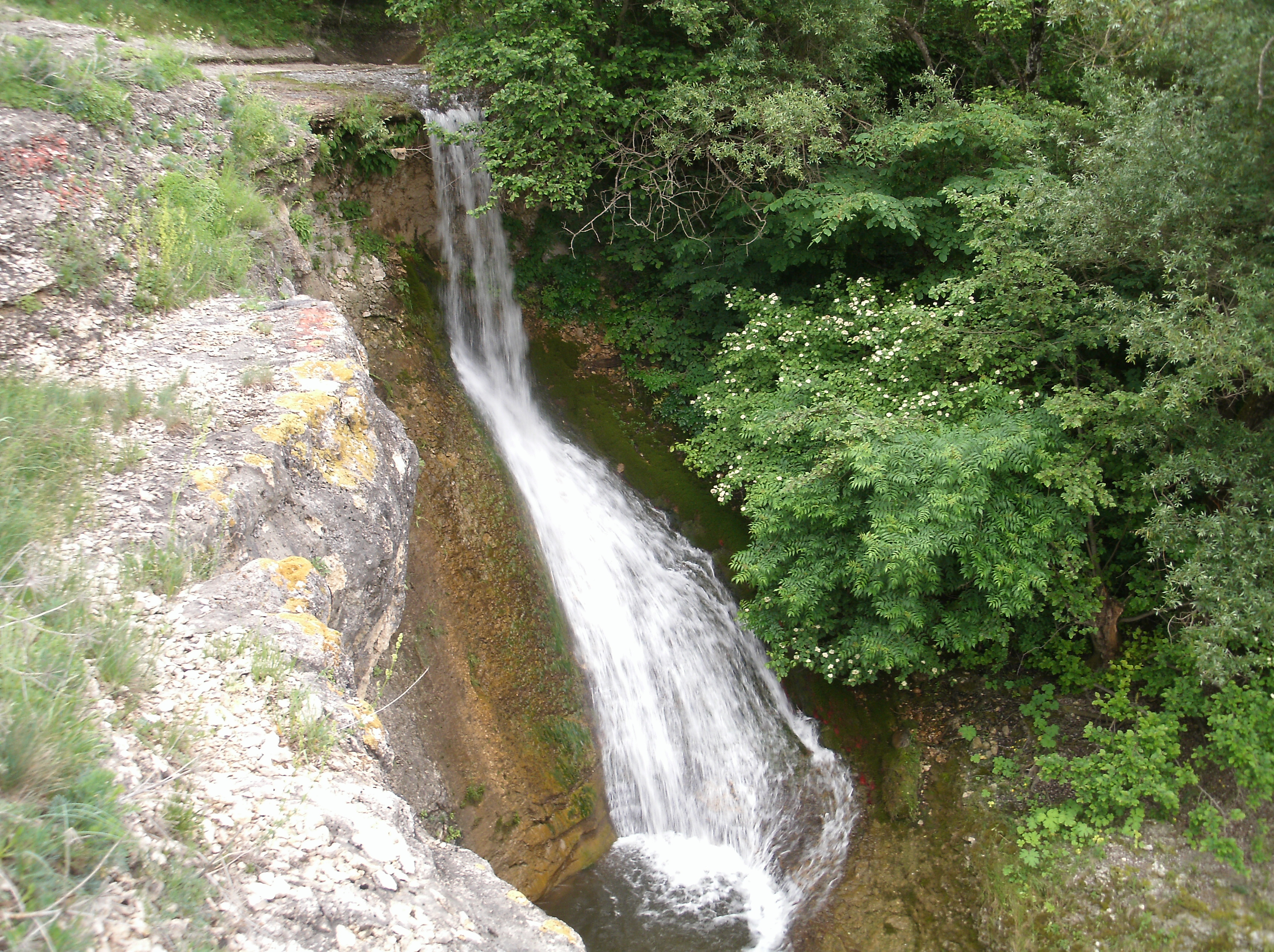 Canyon Kurlyuk